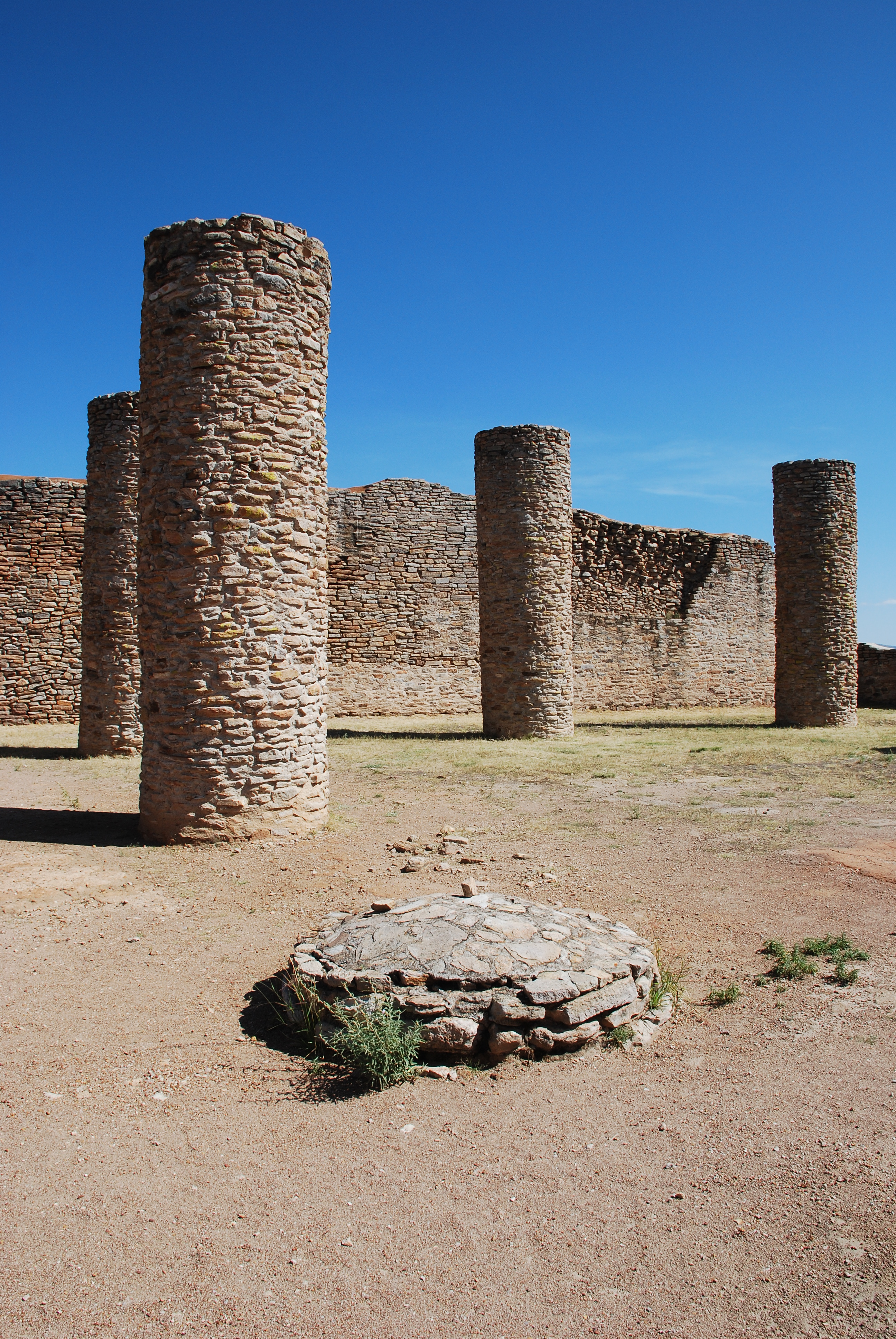 La Quemada, Zacatecas. Archeological site. Aridoamerica.